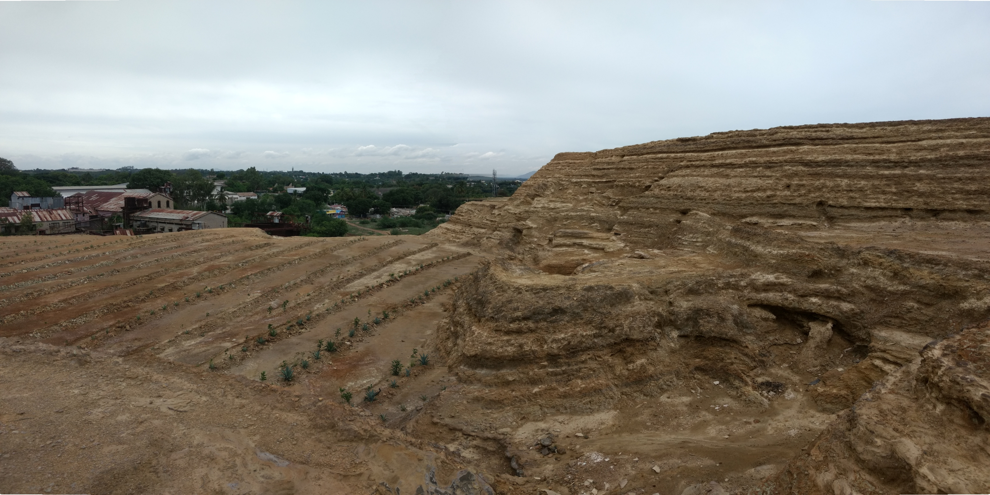 Mine tailings, Kolar Gold Fields